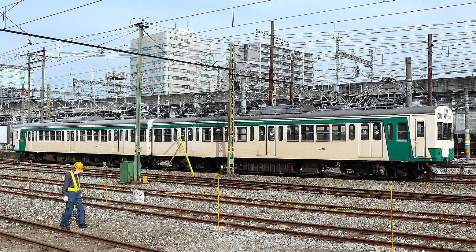 Joushin Dentetu Railway Type 150 EMU (Japan).